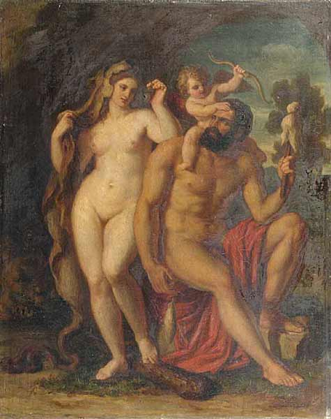 Hercules and Omphale